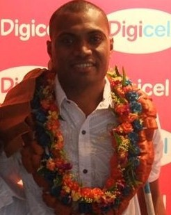 Delana during the luncheon at Digicel.